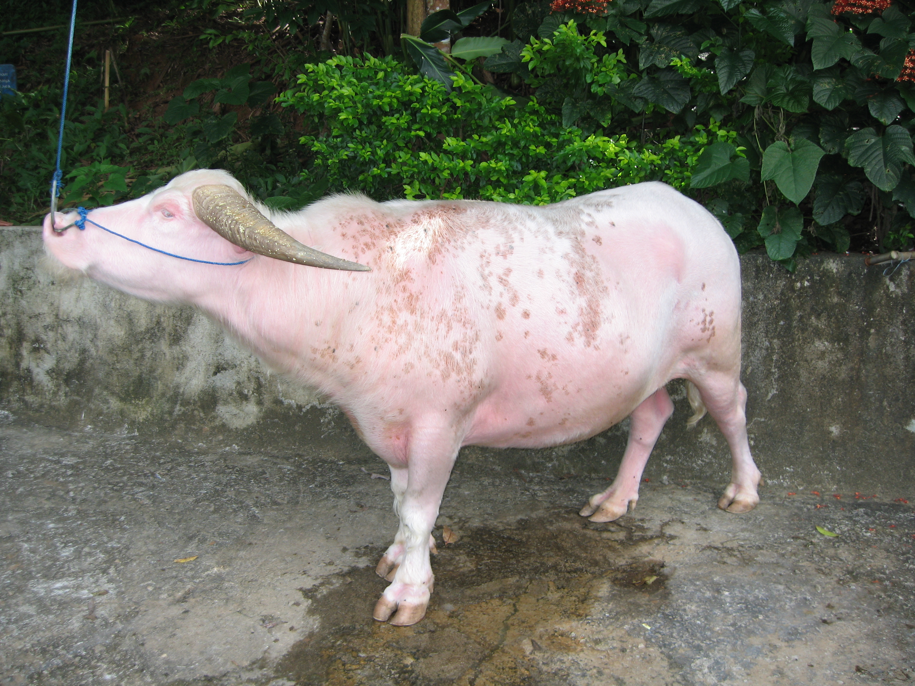 A valuable albino water buffalo near Rantepao, Tana Toraja, Sulawesi, Indonesia